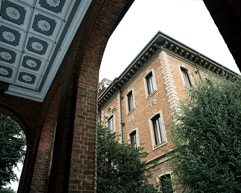 ESCP-EAP Torino